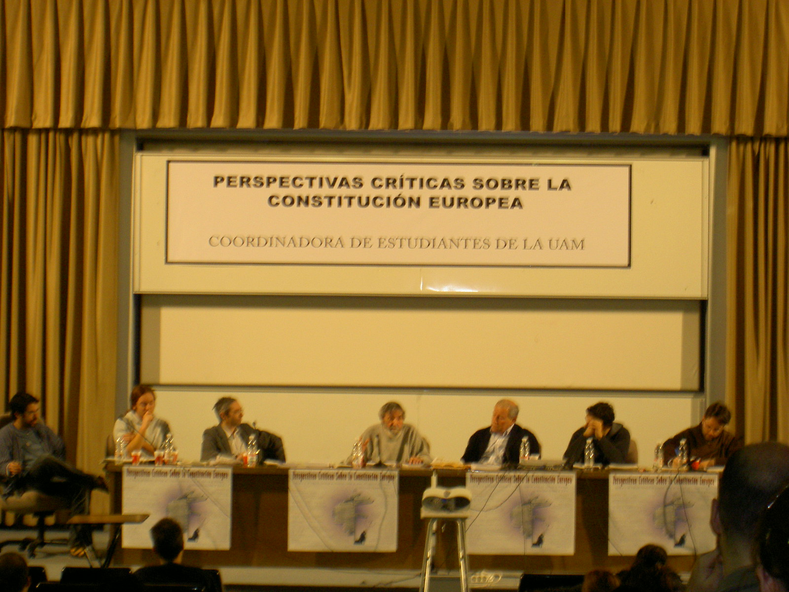 Lecture that Took Place In UAM